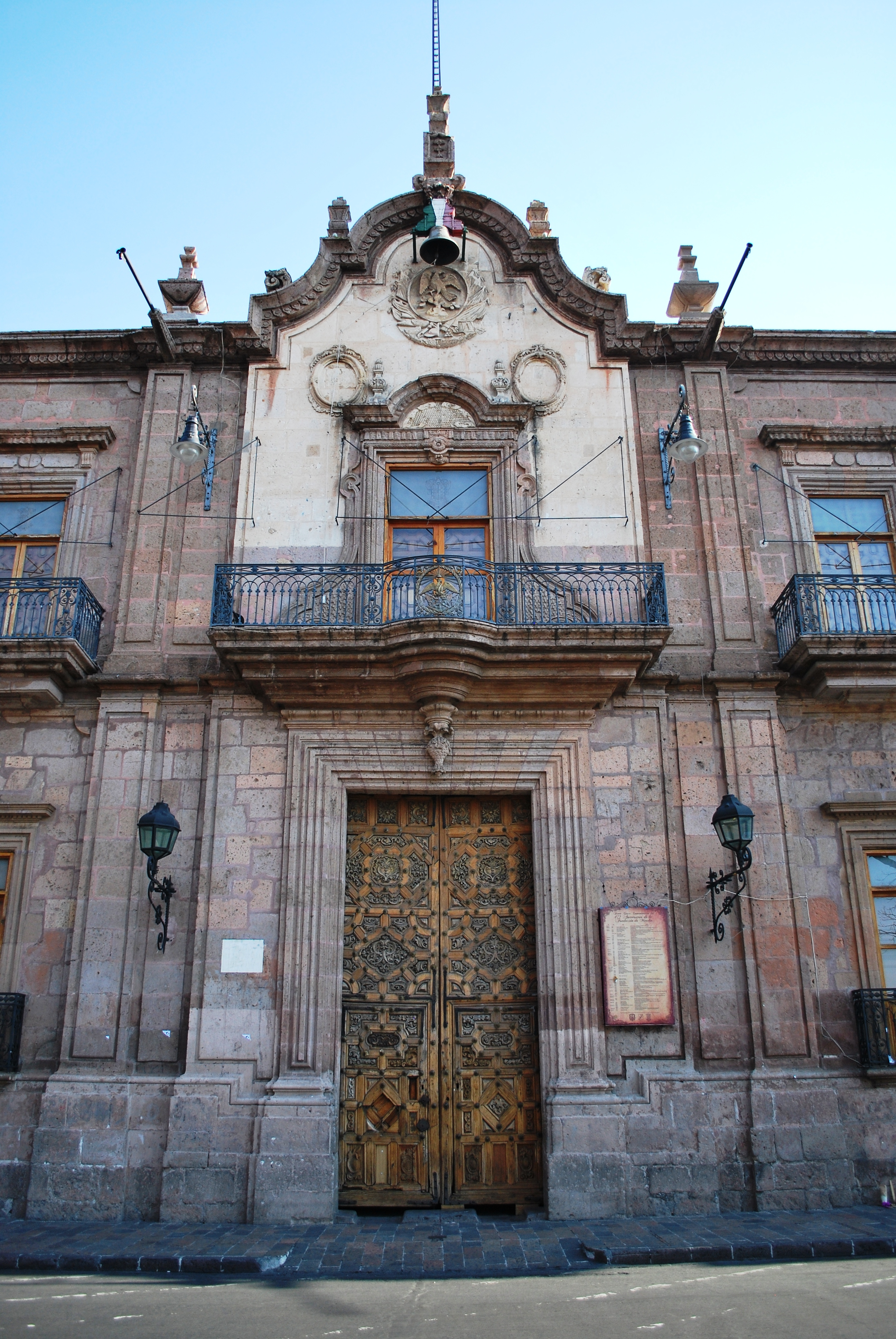 Main entrance to the Palacio de Gobierno of Michoacan in Morelia